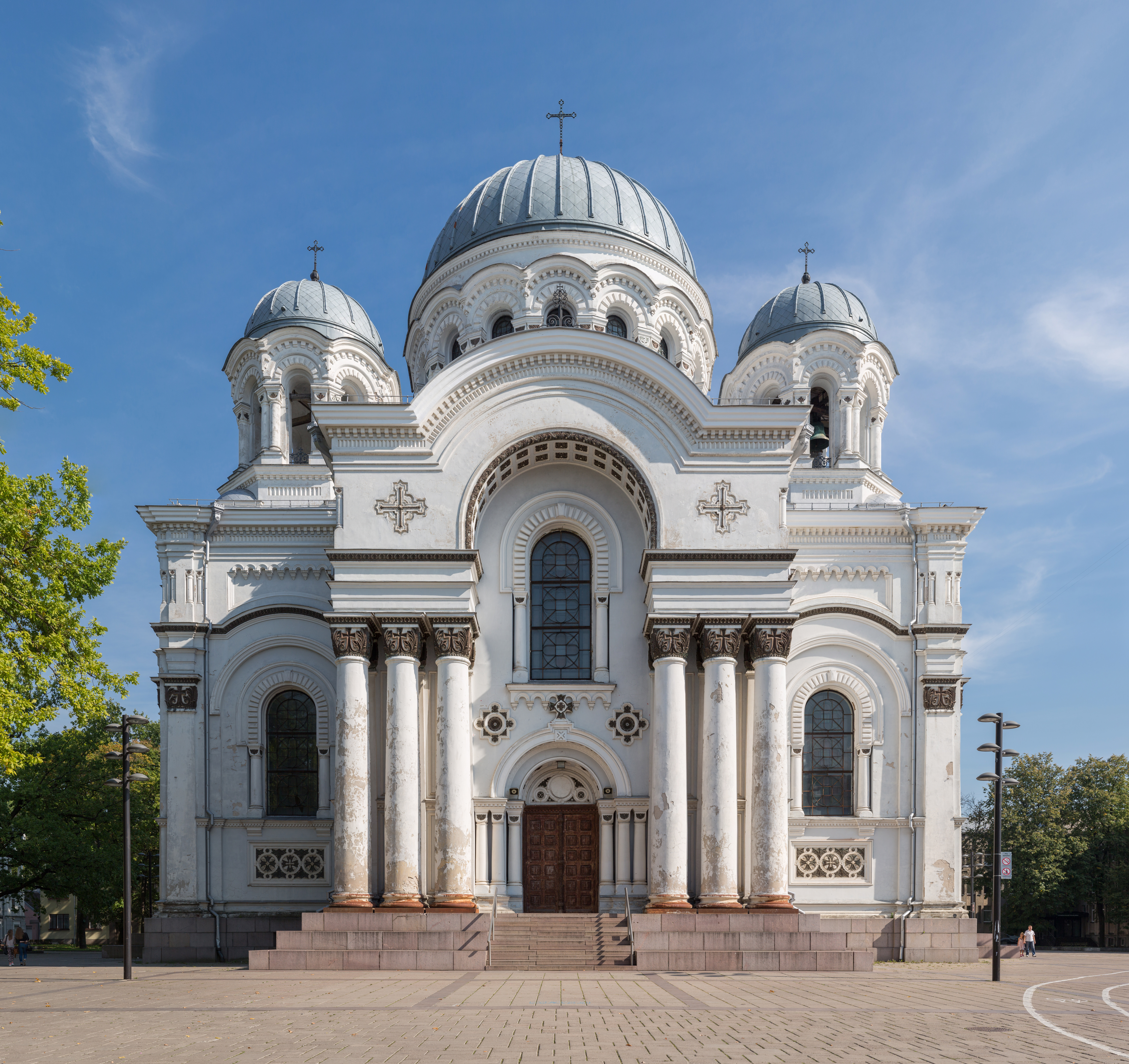 The exterior of St. Michael the Archangel Church in Kaunas, Lithuania